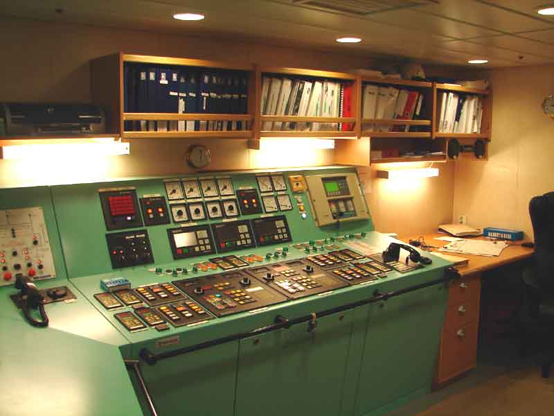 The engine control room of the salvage tug Abeille Bourbon